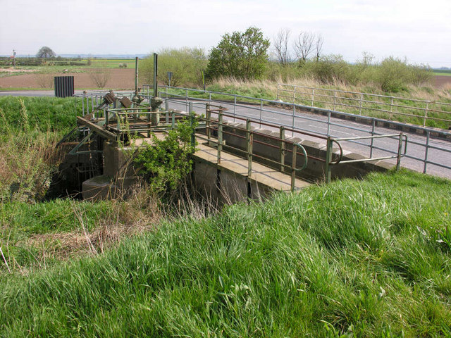 Clough west of Swinefleet, East Riding of Yorkshire, England.This three-gate clough permits water to drain into the River Ouse from the Swinefleet Warping Drain just west of Swinefleet. The road from Goole makes a dog-leg over a bridge across the back of the clough.